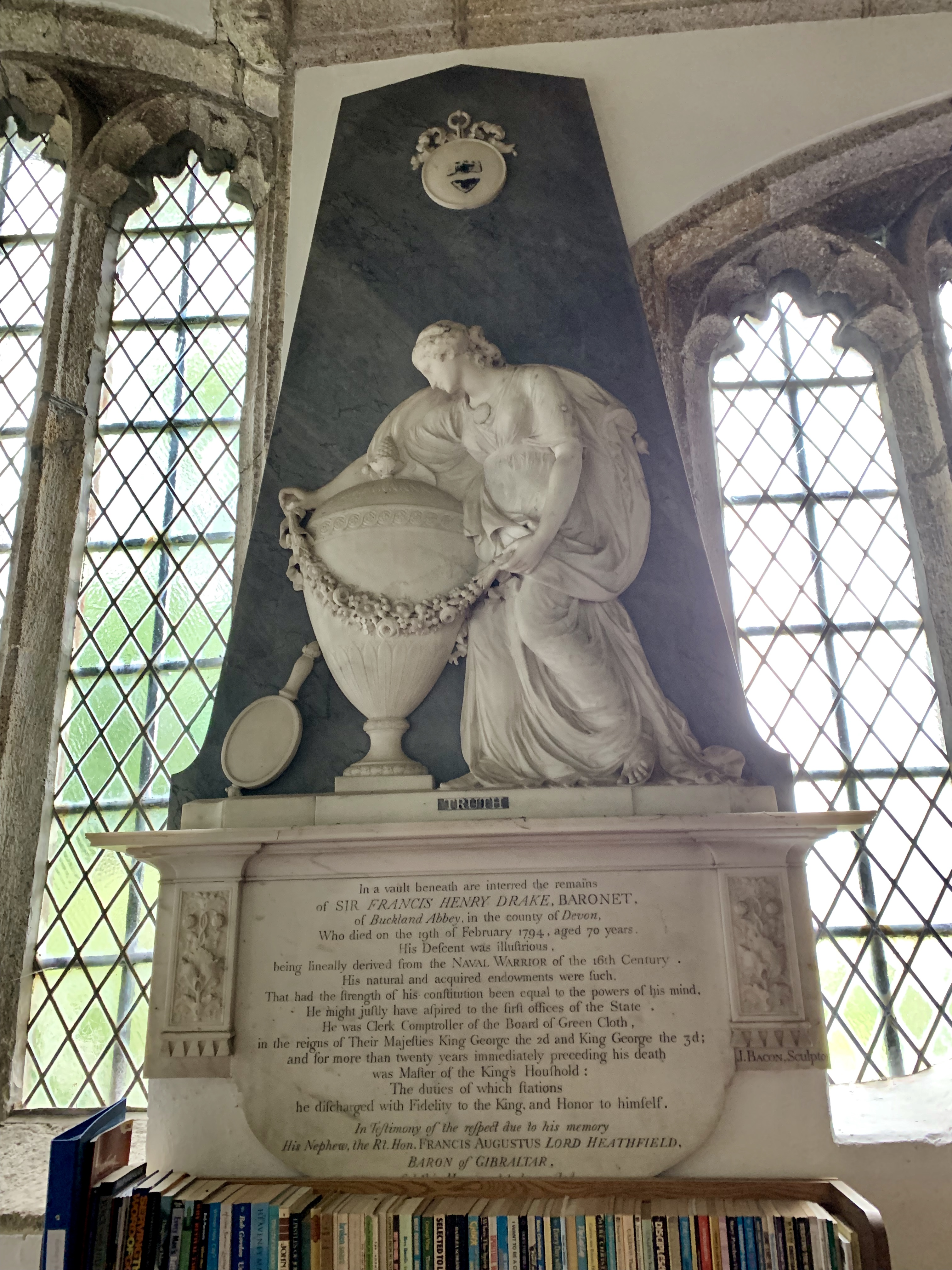 Sir Francis Henry Drake Bt (1794) By John Bacon -signed 'Linearly descended from the naval warrior of the 16th century' He was uncle of Lord Heathfield